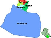 Muthanna Map Destrict